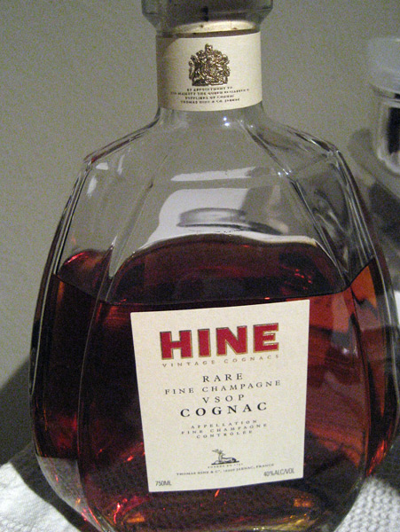 Hine VSOP, Fine Champagne